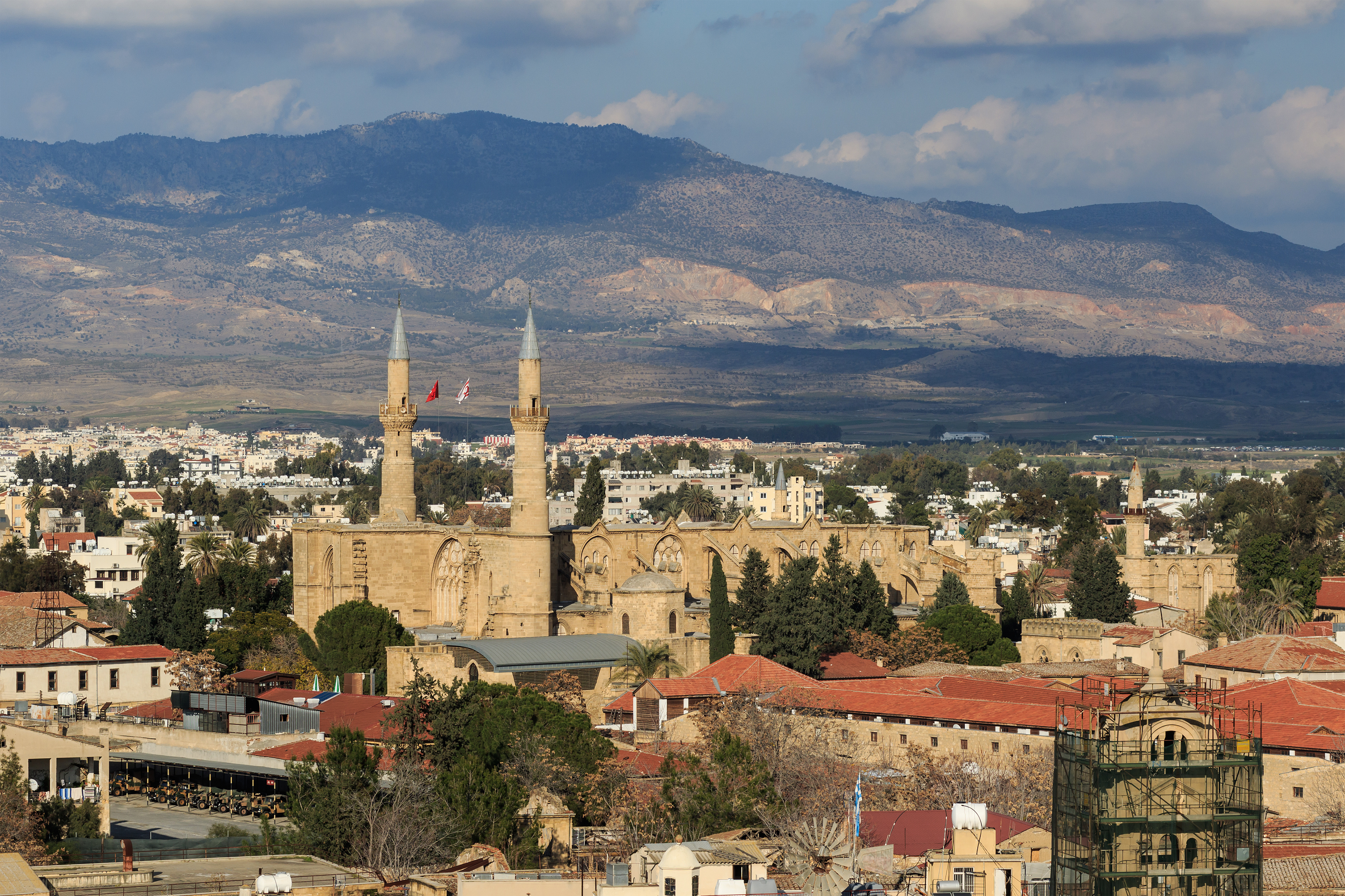 View of Selimiye Mosque (former St. Sophia Cathedral) from Shacolas Tower (Ledra Street Observatory) in Nicosia, Cyprus